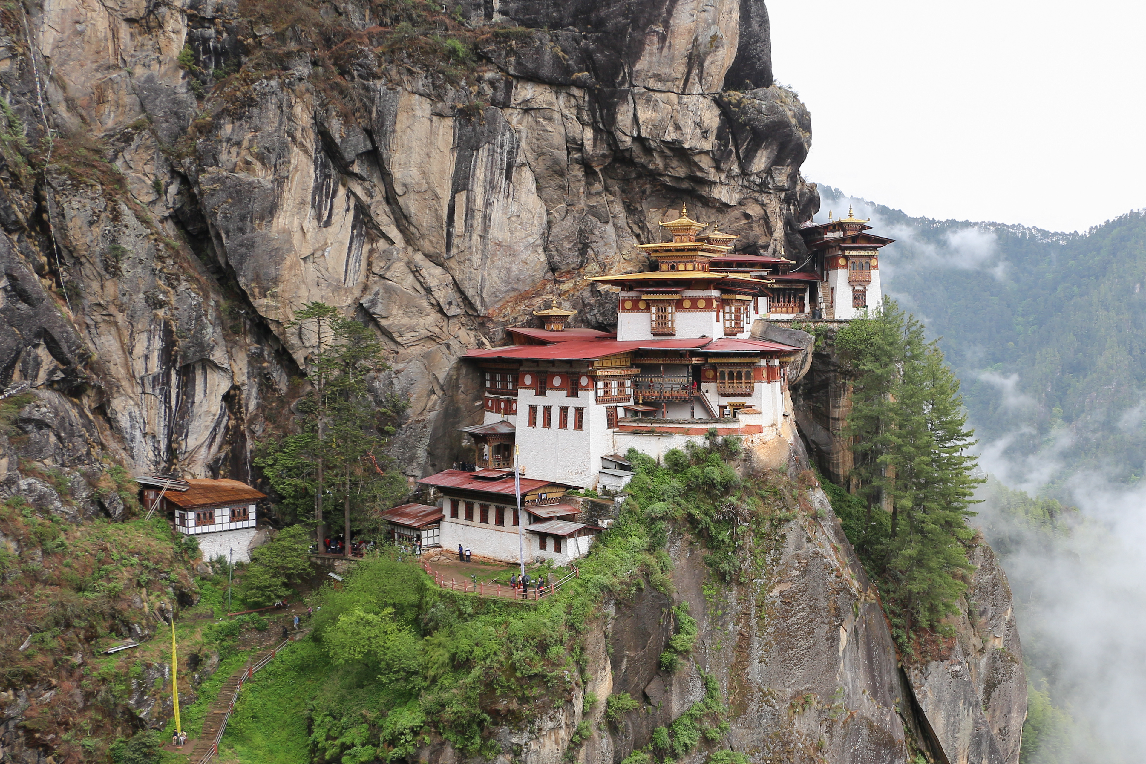 Taktsang Palphug Monastery, Bhutan